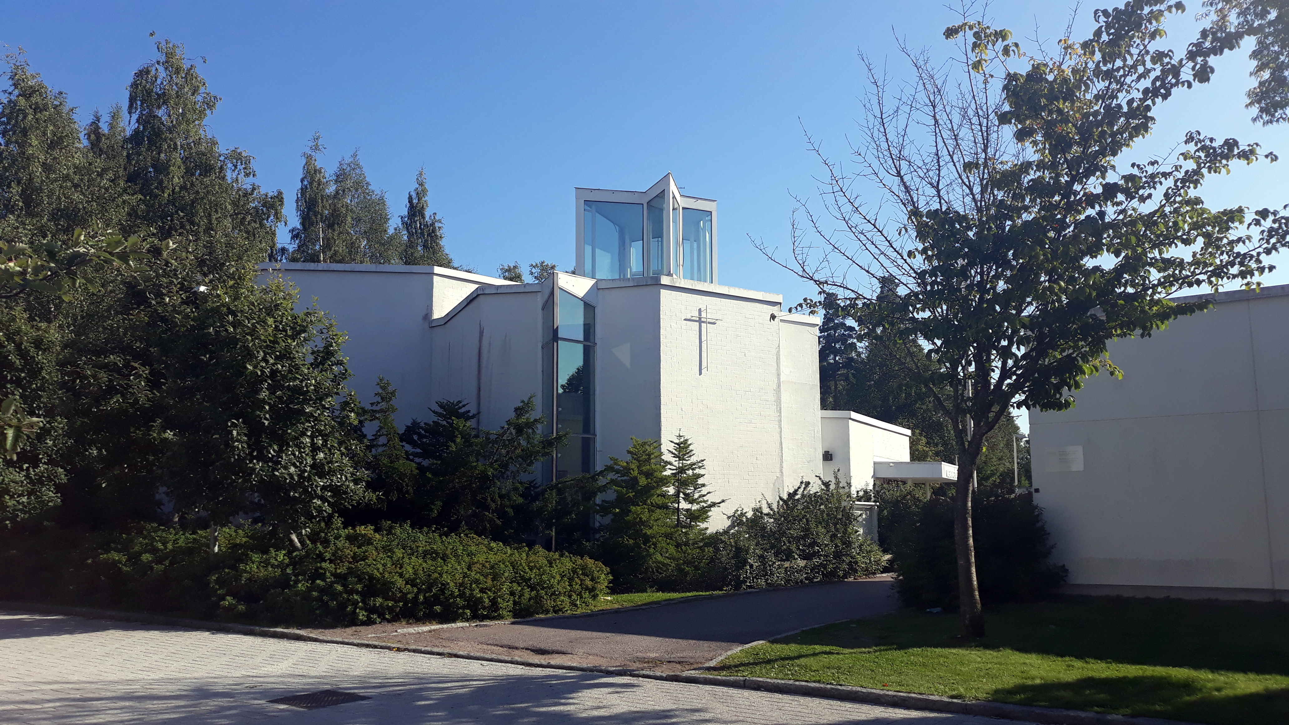 Merirasti chapel in Meri-Rastila, Helsinki.